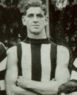 Photograph of Bill Glynn in 1922